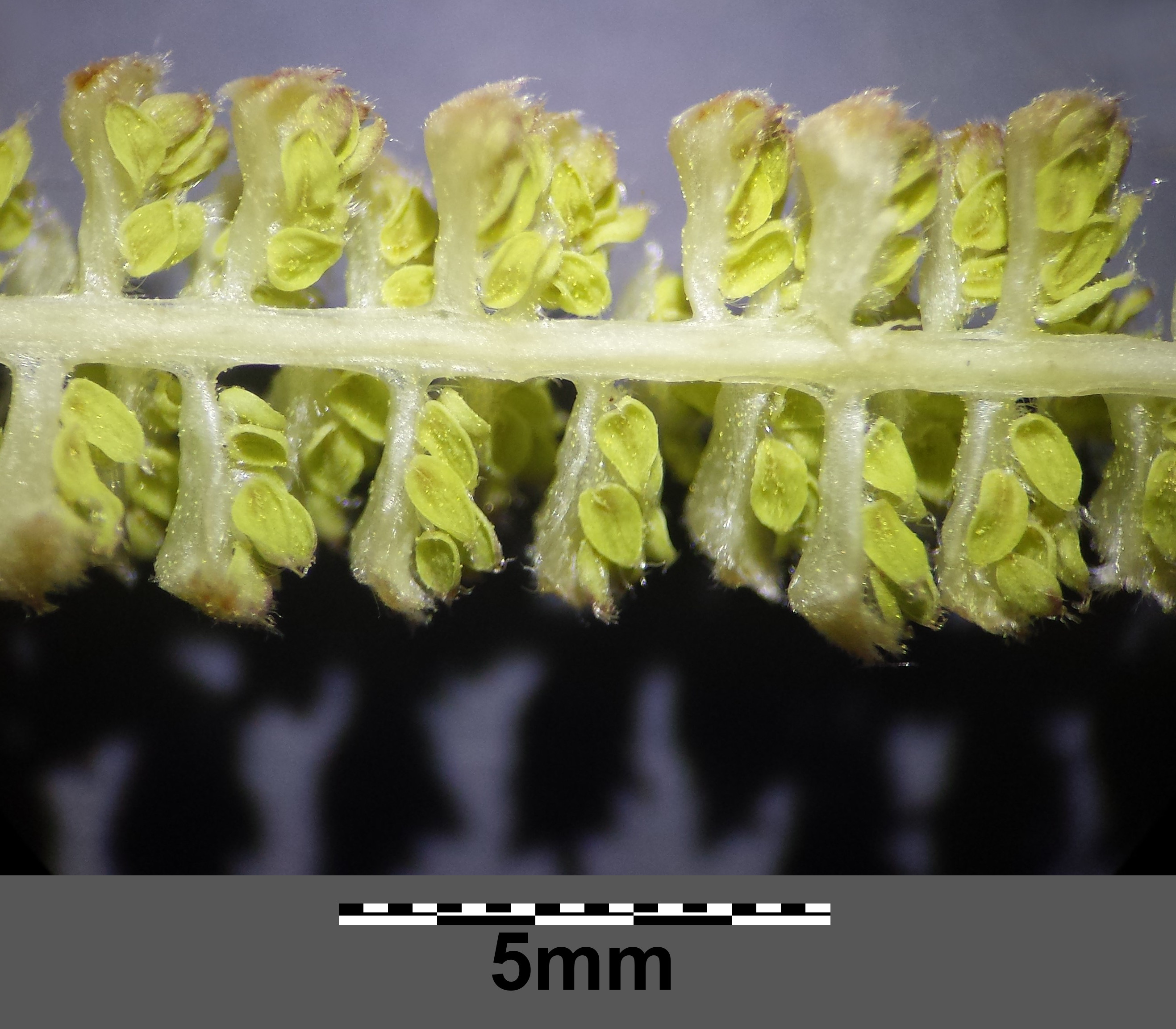 Male inflorescence, flowers in front removed Taxonym: Corylus avellana ss Fischer et al. EfÖLS 2008 ISBN 978-3-85474-187-9 Location: near Niederhollabrunn, district Korneuburg, Lower Austria - ca. 350 m a.s.l. Habitat: shrubbery